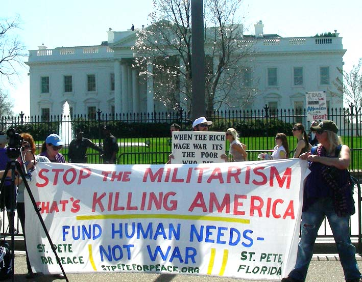 Protesters hold banner showing support for the St. Petersburg (Florida) for Peace at the March 20, 2010 anti-war protest in Washington, DC